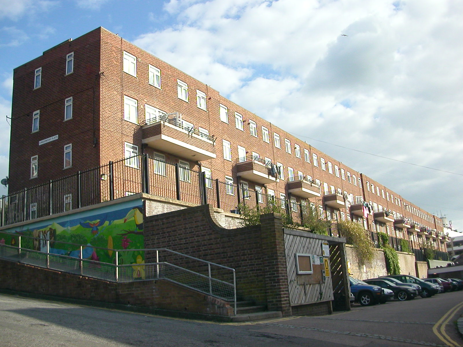 Kingswood Flats in the Carlton Hill area of the city of Brighton and Hove, England. Built in 1938 as part of an extensive slum clearance programme in this inner-city area.